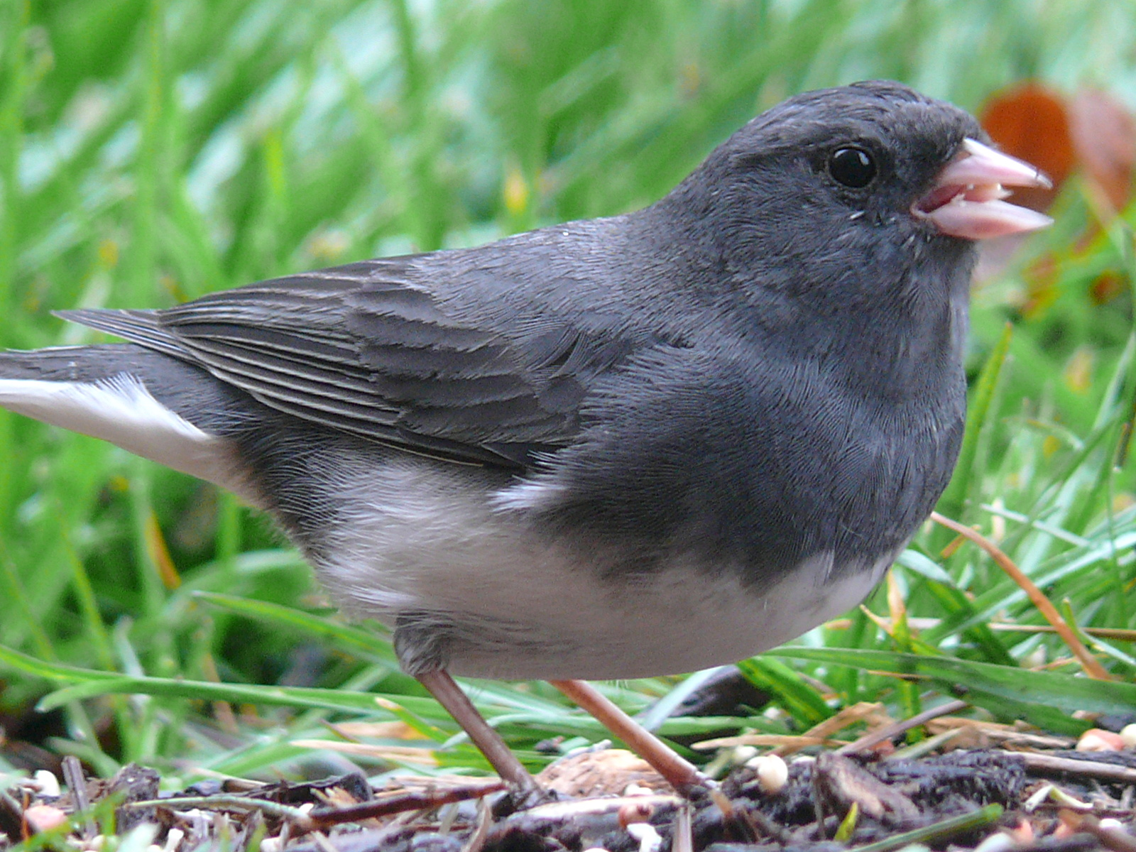 A Dark-eyed Junco subspecies - the Slate-colored Junco (Junco hyemalis hyemalis) in the grass.Photo taken with a Panasonic Lumix DMC-FZ50 in Caldwell County, North Carolina, USA.